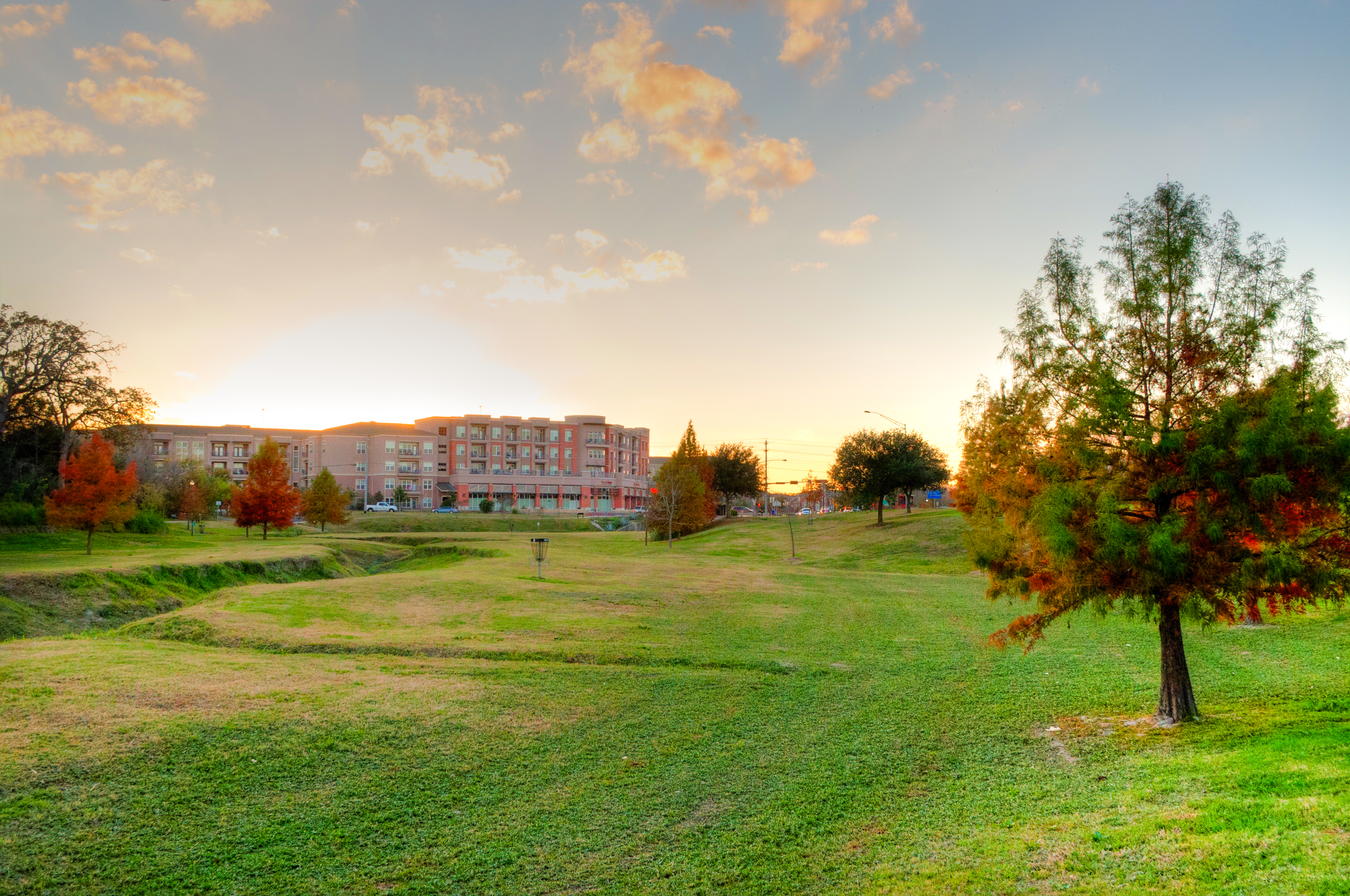 View of the Lofts at Wolf Pen Creek from the Wolf Pen Creek Park.